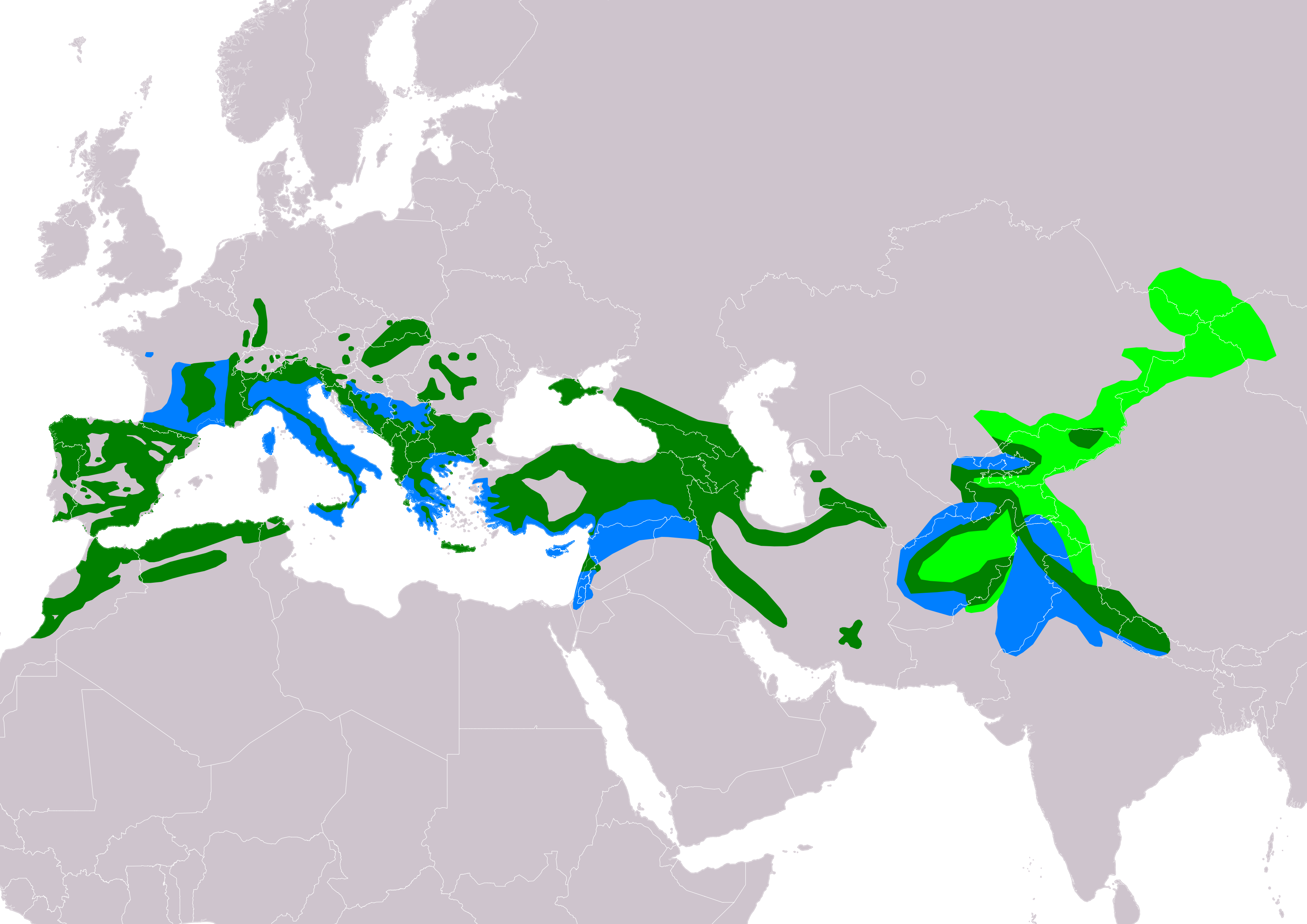 Distribution map of rock bunting (Emberiza cia) according to IUCN version 2019-3; key: Legend: Extant, breeding (#00FF00), Extant, resident (#008000), Extant, non-breeding (#007FFF)